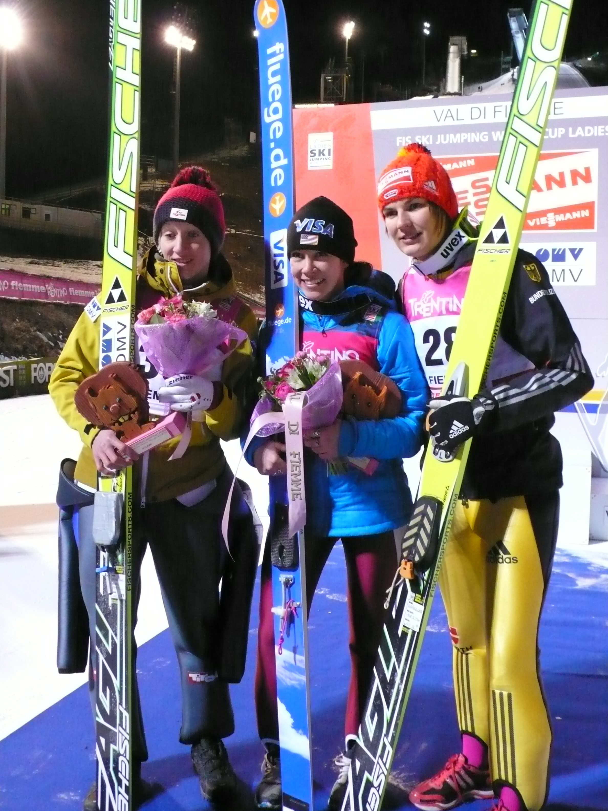 1: Sarah Hendrickson, 2: Daniela Iraschko, 3: Ulrike Gräßler: podium of Female Skijumping Worldcup in Predazzo on the 2012-01-15.